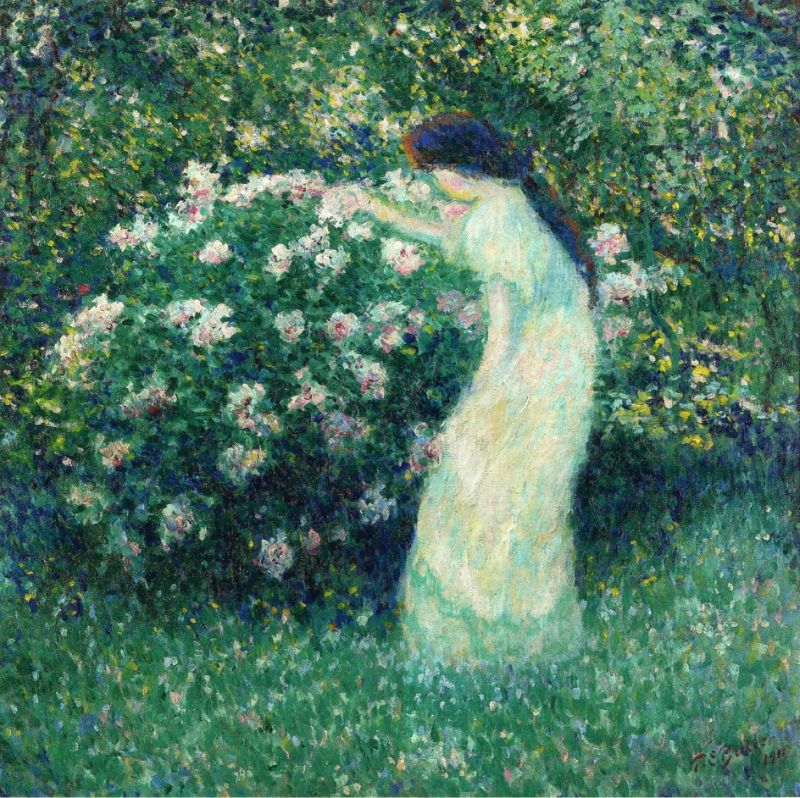 Lili_Butler_in_Claude_Monets_garden